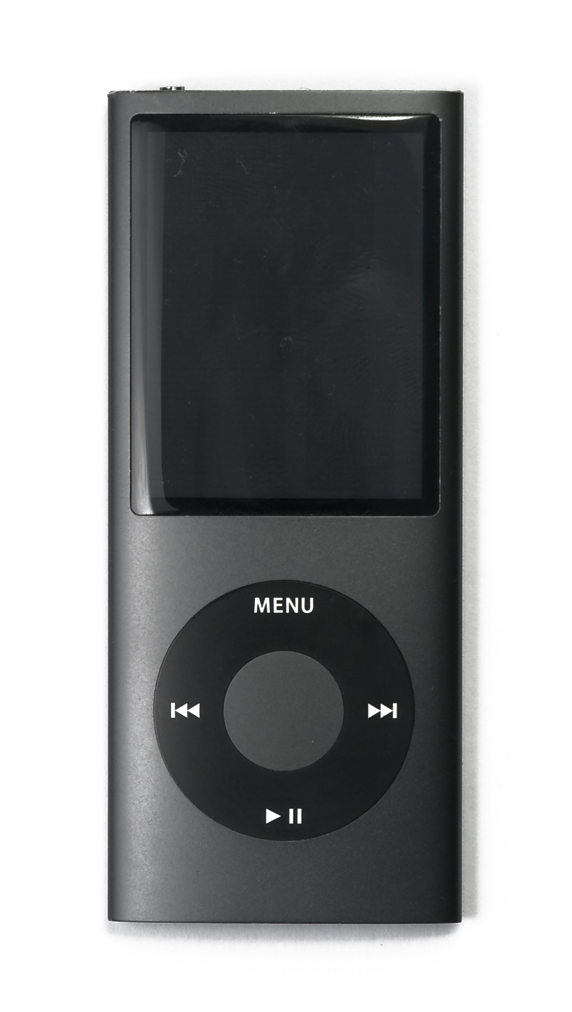 iPod Nano 4G